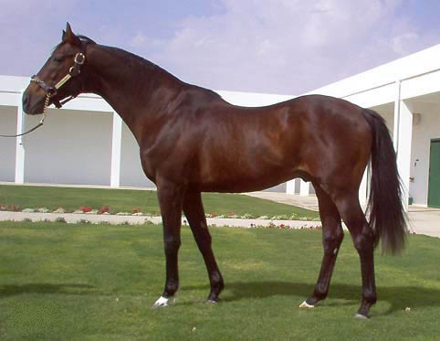 I took this photo myself at King Abdullah's farm in Saudi Arabia in 2005 when Alysheba was 21 years old.